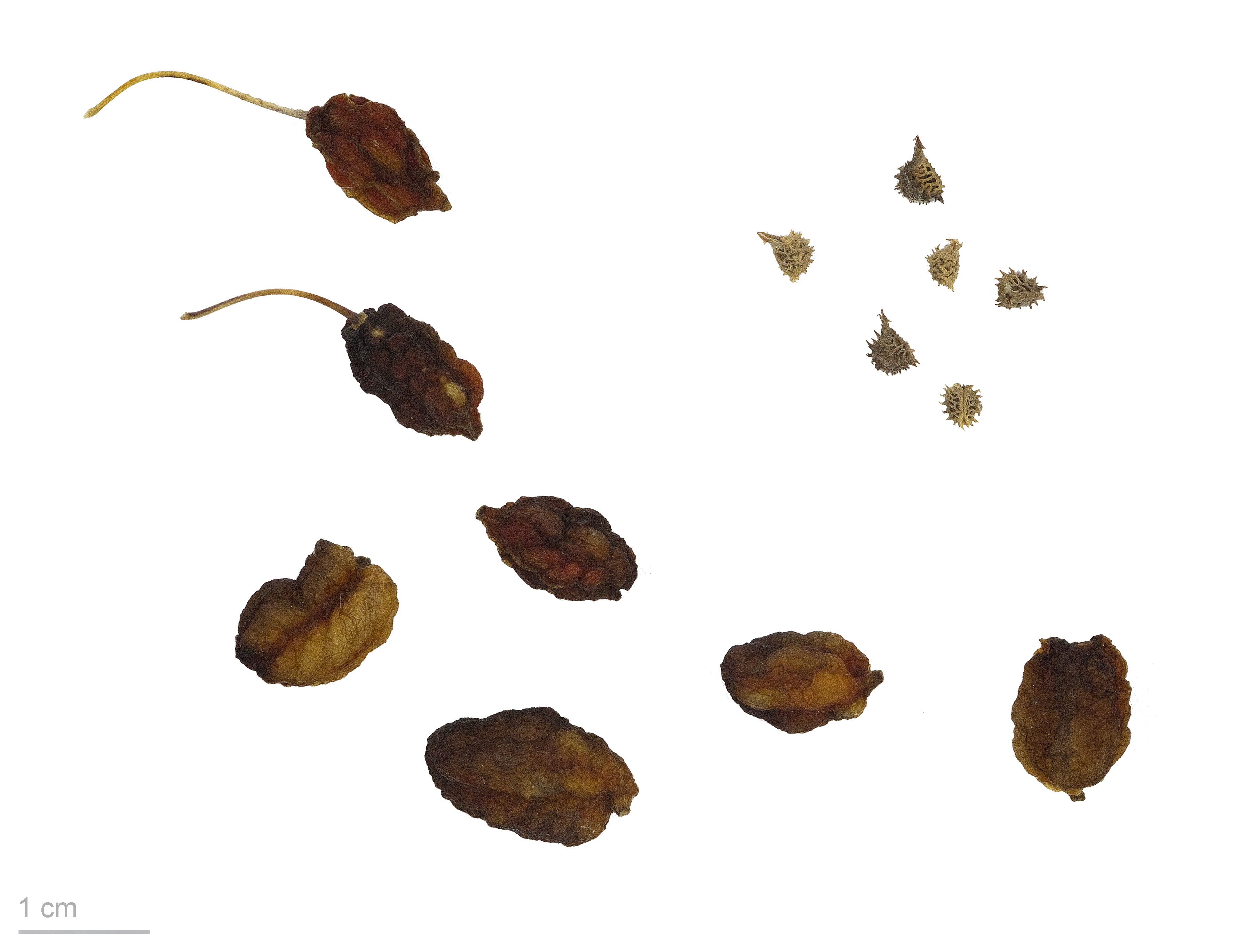 twistedstalk , fruits and seeds